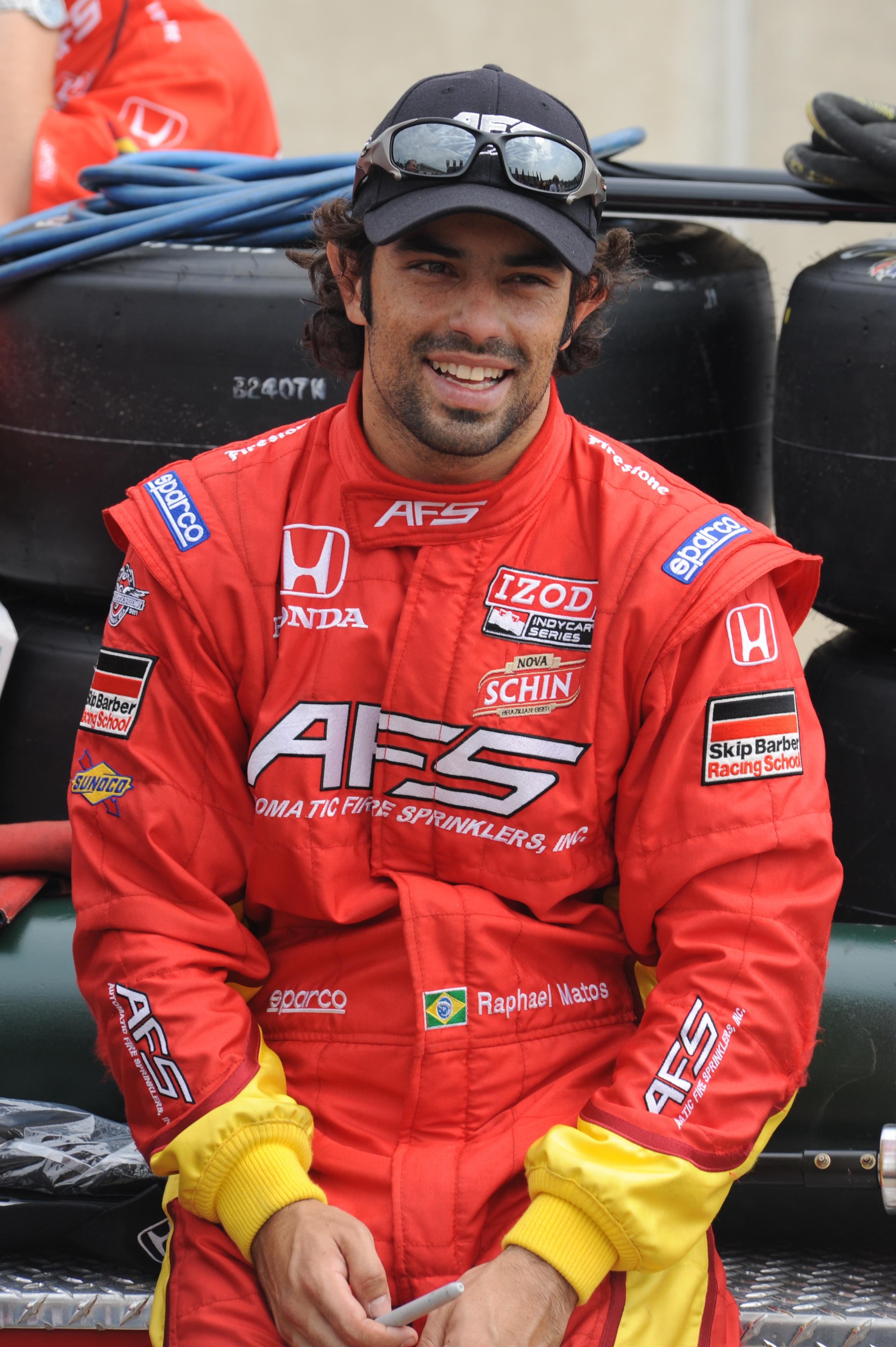 Raphael Matos at the Indianapolis Motor Speedway on the first day of qualifying for the 500, waiting in Gasoline Alley for space to clear up for his team to wheel his car out to the pits.